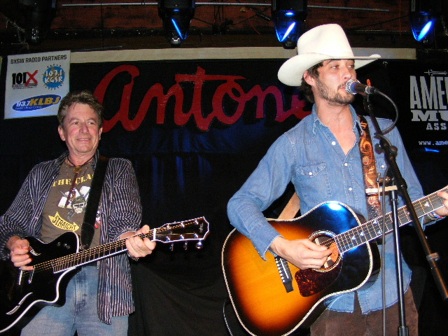 Ryan Bingham performing with Joe Ely at Antone's in Austin, TX during SXSW (2008). Photo by Ron Baker.